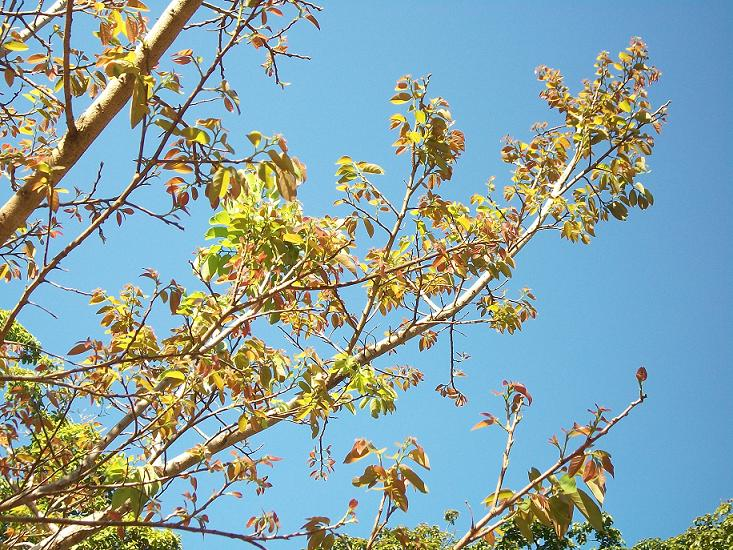 Young leaves of Bridelia micrantha from Amanzimtoti, South Africa